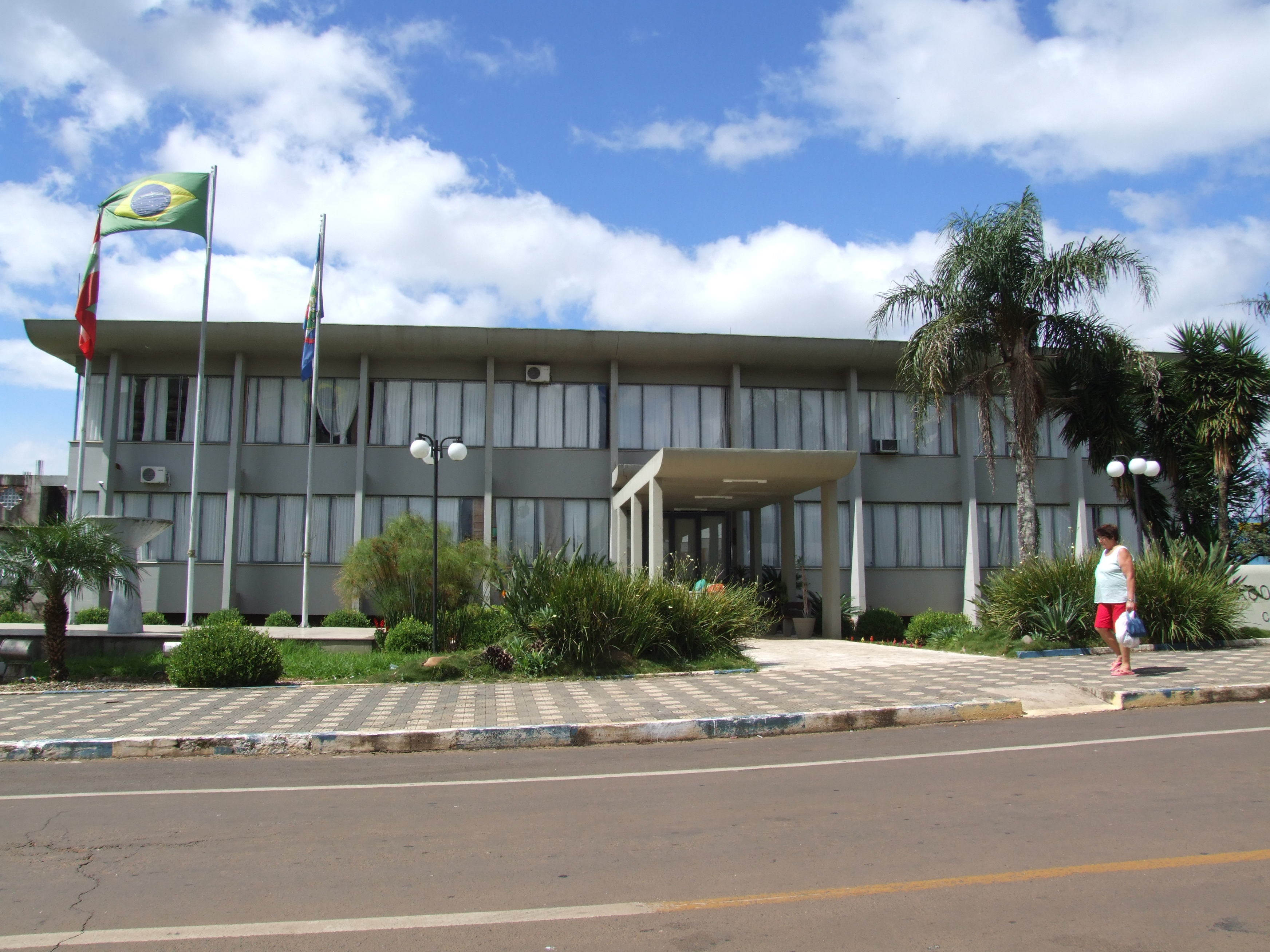 Campos Novos City Hall, headquarters of the executive branch of the municipality.